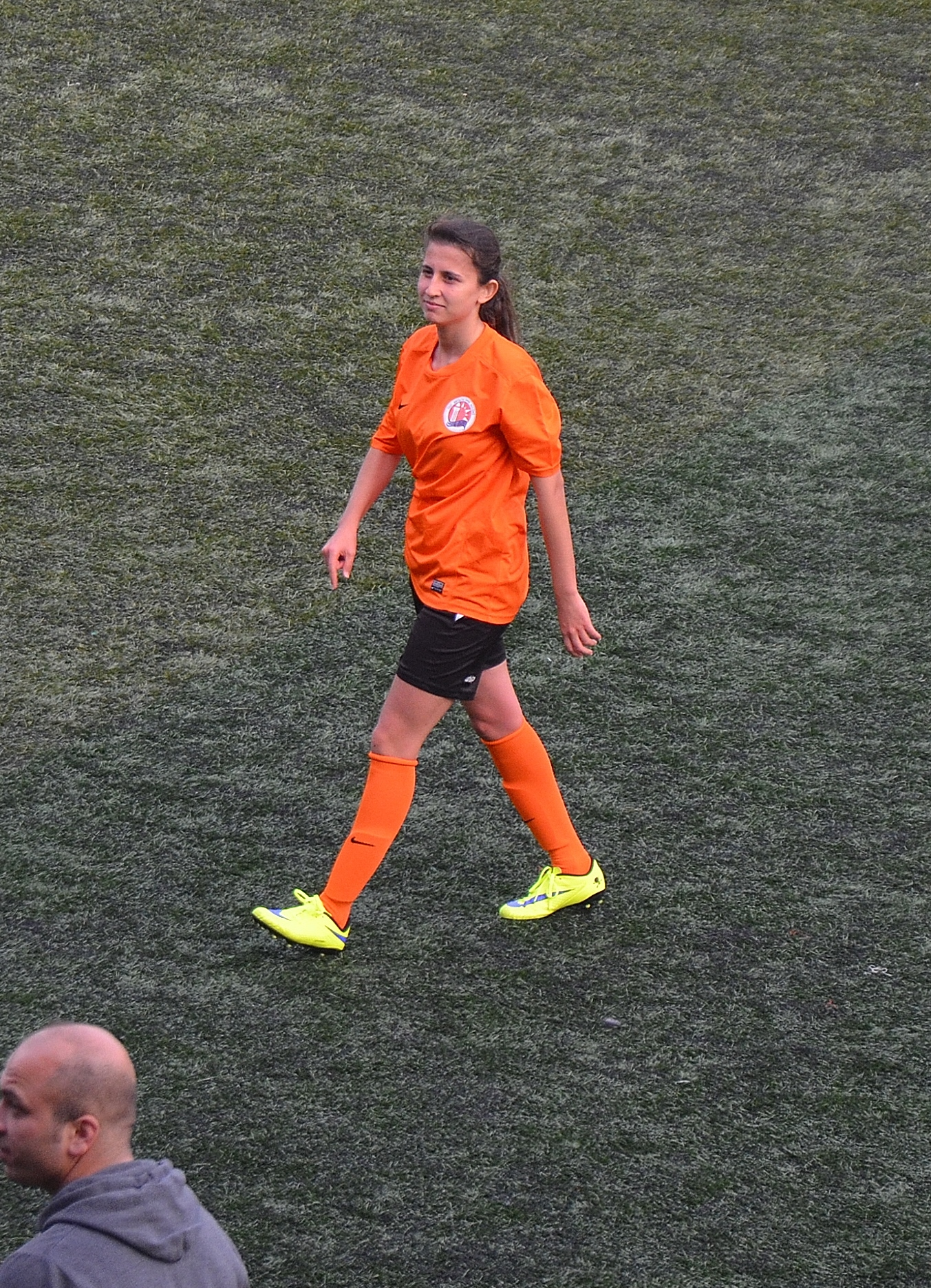 Şefika Altındal playing for 1207 Antalya Muratpaşa Belediyespor in the 2015-16 season's away match against Kireçburnu Spor